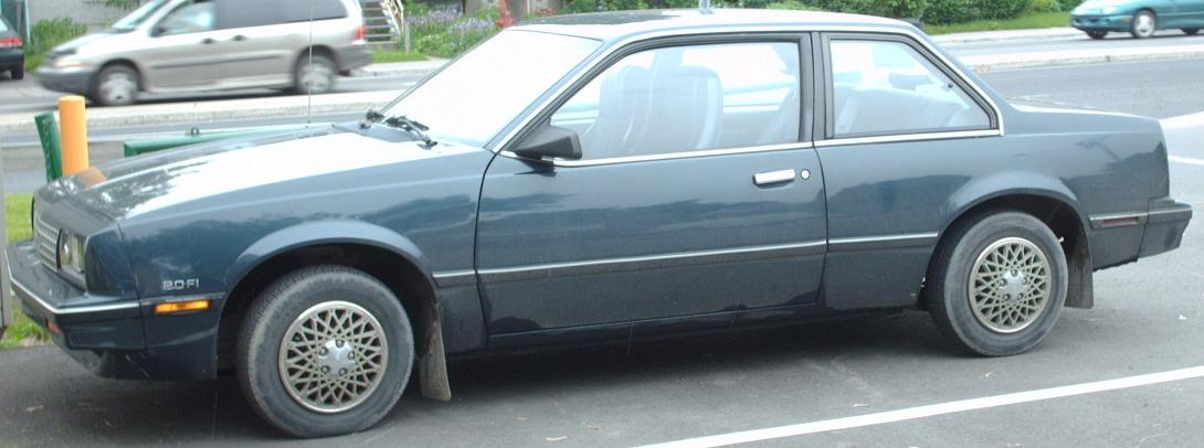 1986-1987 Chevrolet Cavalier coupe photographed in Montreal, Quebec, Canada.